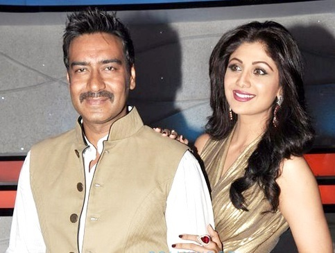 Ajay Devgn at 'Nach Baliye 5' with Shilpa Shetty snapped on (5 Feb 2013).